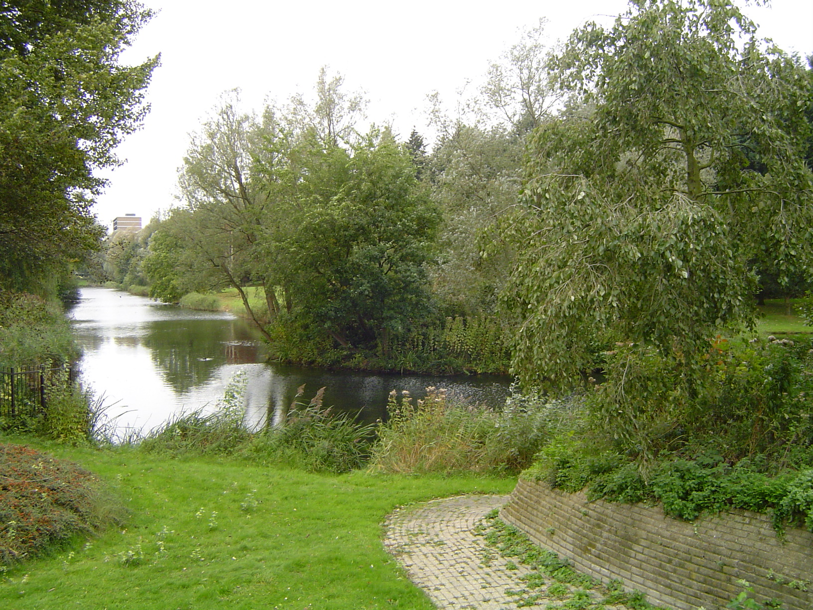 Nijmegen Dukenburg, Grand Canal, 1700s element of the park of the former Castle Dukenburg, now integrated in the city quarter Dukenburg (border between neighbourhoods Tolhuis and Meijhorst).